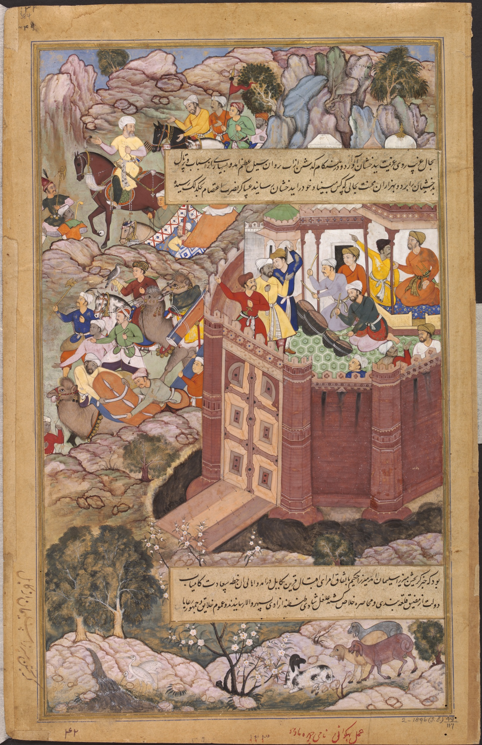 This illustration to the Akbarnama (Book of Akbar) depicts the flight of Mirza Sulayman from the Mughal army in Kabul (present-day Afghanistan). Those bearing the title Mirza were, like the Mughal royal family, descended from Timur, the Central Asian ruler who had briefly conquered Hindustan, as the northern regions of South Asia were known, in 1398. As a result, Hindustan was later seen as a legitimate target for conquest by members of the different branches of the family. During the reign of the Mughal emperor Akbar (r.1556–1605) battles between Mughal forces and various Mirzas frequently took place as each tried to seize control of a particular region. The title Mirza is a contraction of the Persian ‘Amirzadeh’, meaning ‘born of the amir’ (that is, Timur). The picture was painted by the Mughal court artist Bhagwan, with the faces done by Madhav. The Akbarnama was commissioned by Akbar as the official chronicle of his reign. It was written in Persian by his court historian and biographer, Abu’l Fazl, between 1590 and 1596, and the V&A’s partial copy of the manuscript is thought to have been illustrated between about 1592 and 1595. This is thought to be the earliest illustrated version of the text, and drew upon the expertise of some of the best royal artists of the time. The V&A purchased the manuscript in 1896 from Frances Clarke, the widow of Major General John Clarke, who bought it in India while serving as Commissioner of Oudh between 1858 and 1862.